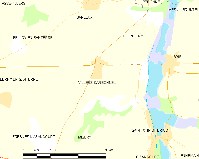 Map of French municipality Villers-Carbonnel